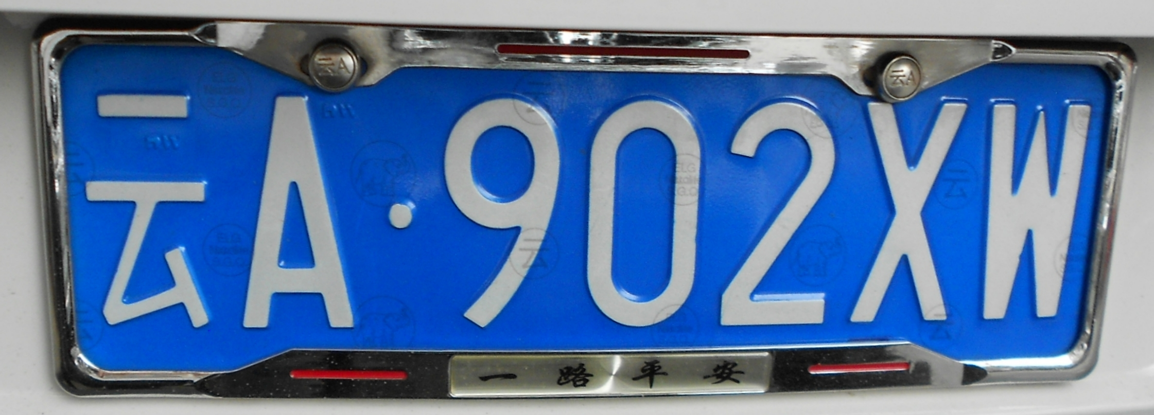 云A License plate of Kunming, People's Republic of China